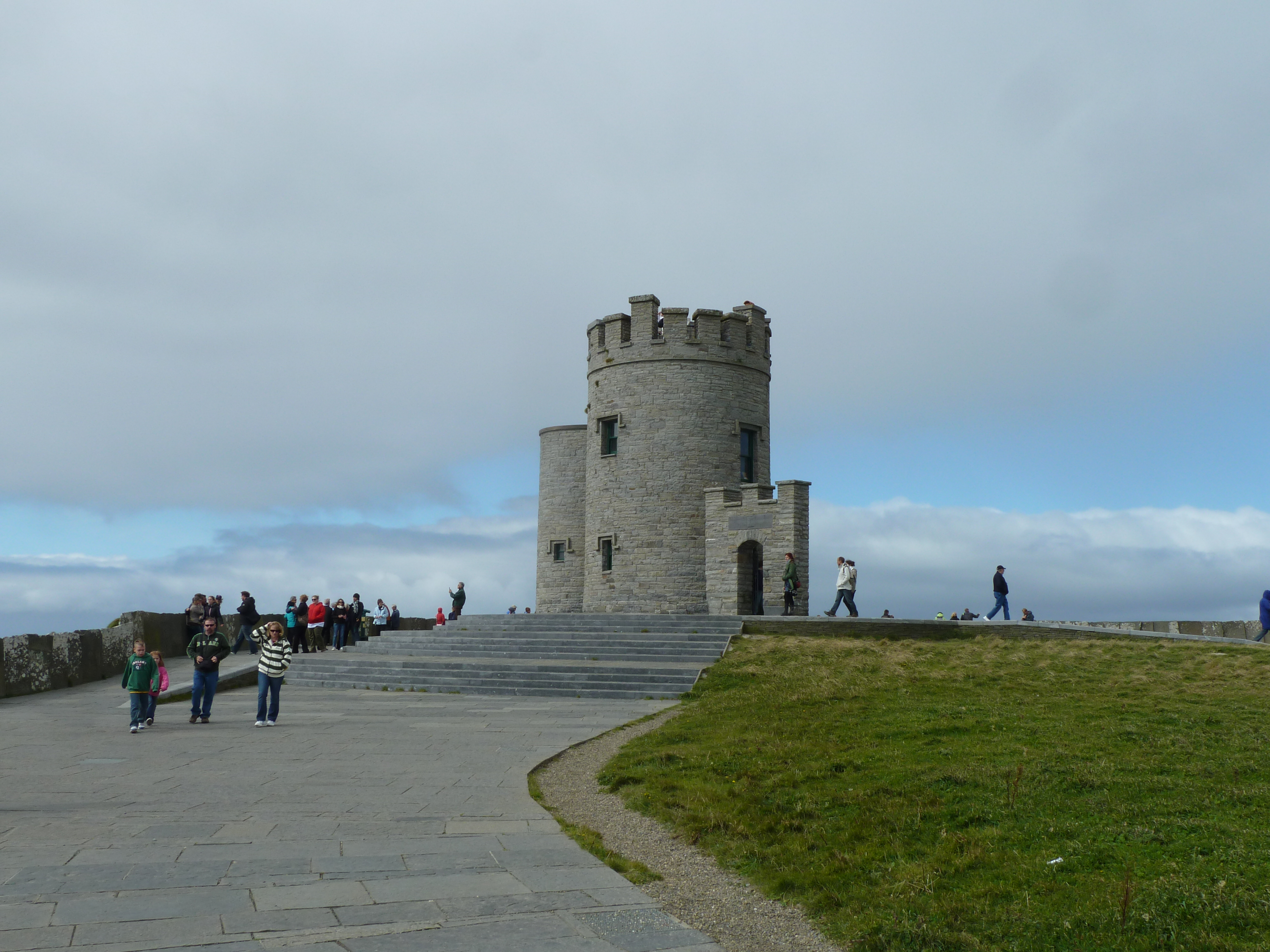 O'Brien's Tower on Cliffs of Moher